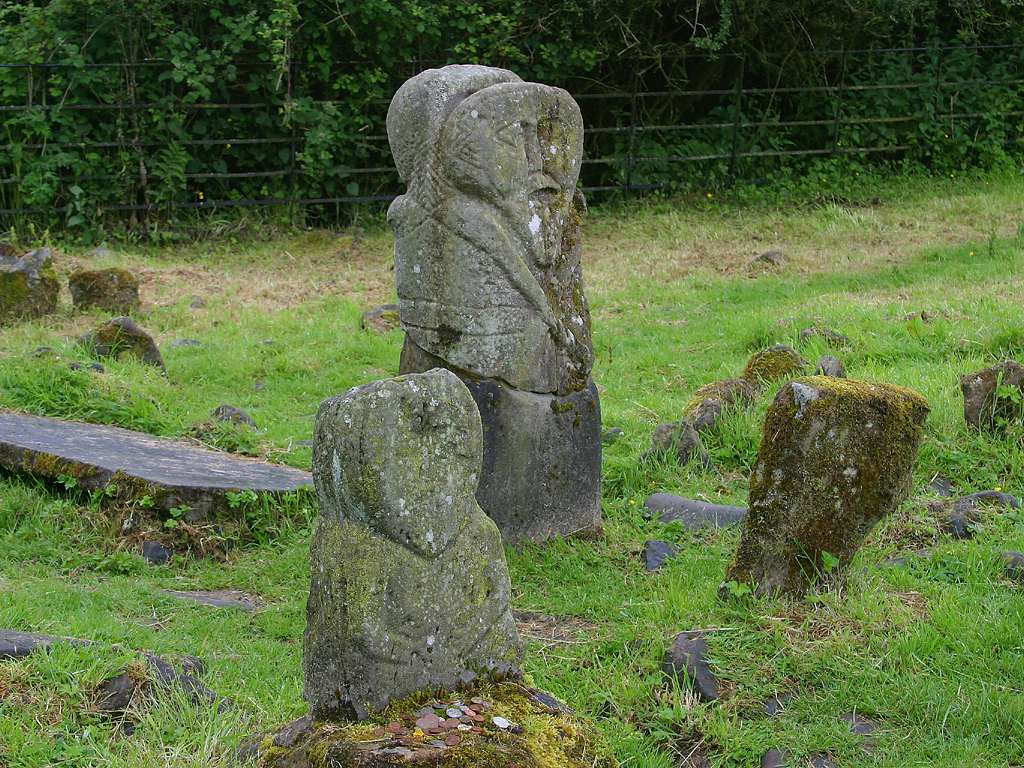 The Janus and Lustymore figures on Boa Island, Co. Fermanagh, Northern Ireland. The Janus figure is in the background, the Lustymore figure in the foreground.